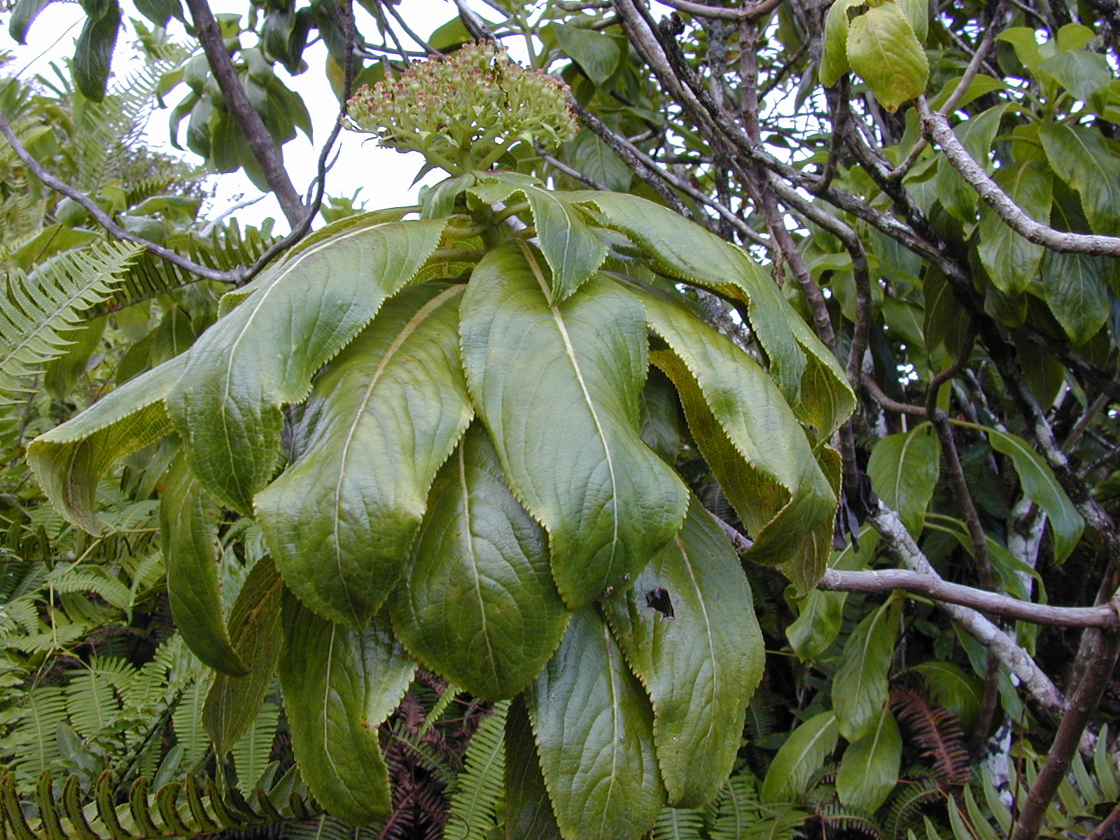 Broussaisia arguta (flowers and leaves). Location: Maui, Waihee Ridge Trail